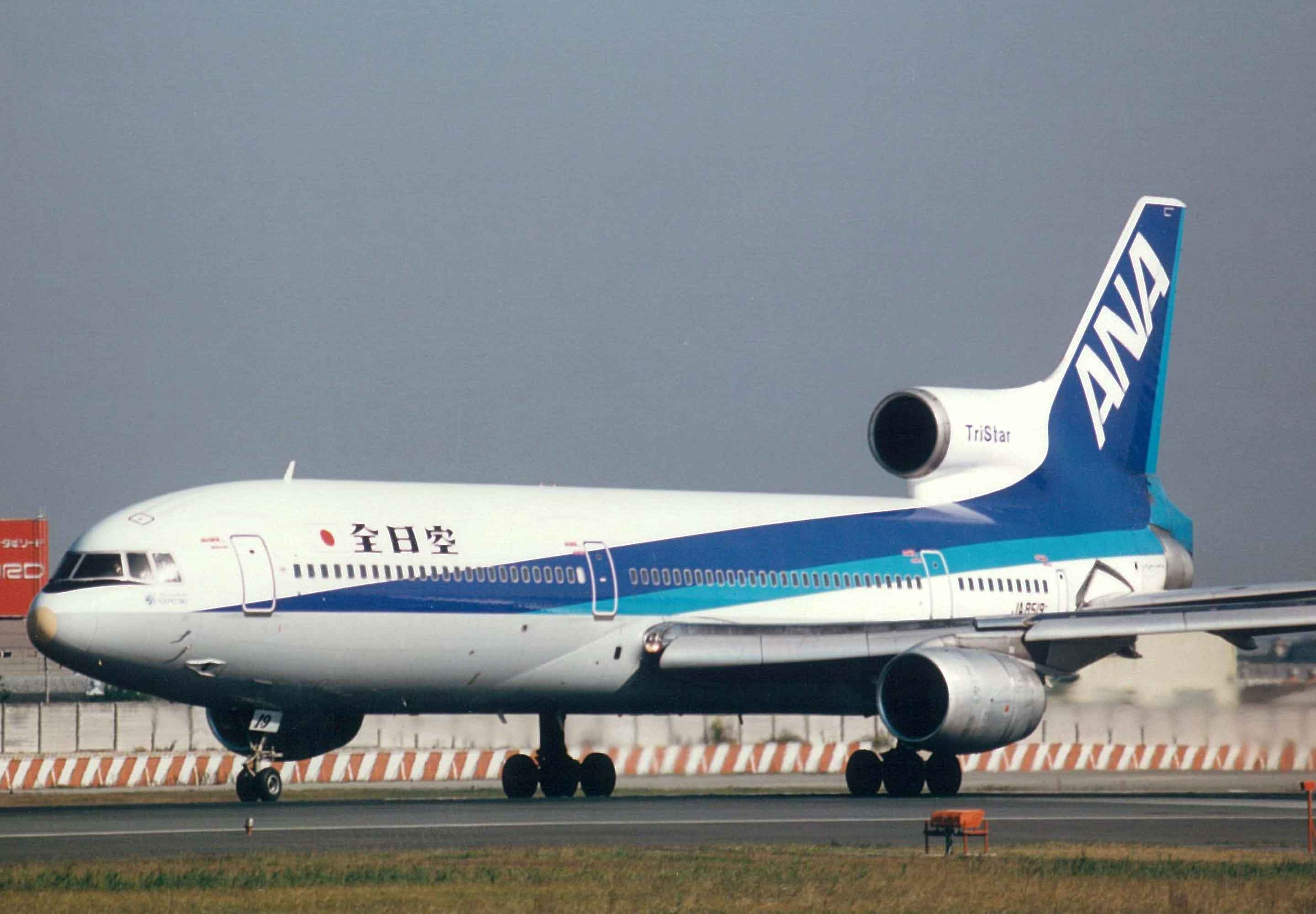 It is ANA which it photographed in Itami, Osaka Airport.